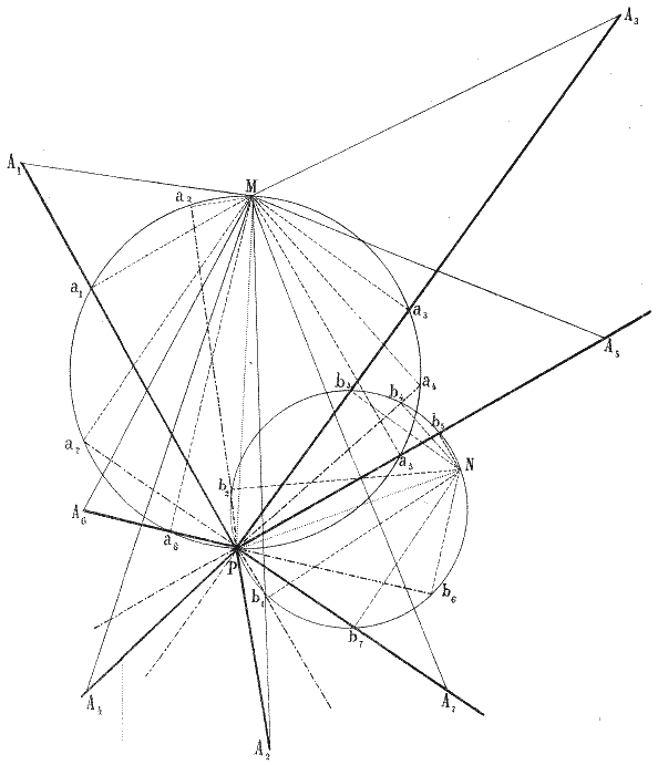 The picture from the article К вопросу о точке наименьшего расстояния, 1892 (Vasily Zinger, 1836-1907)